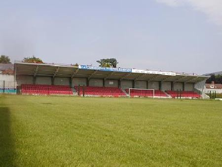 Solitude